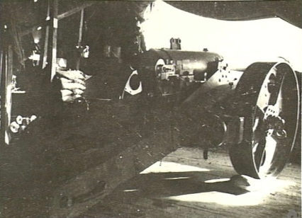 GALLIPOLI. 1915-12-16. 4.7 GUN ERECTED IN ITS EMPLACEMENT BY THE 2ND FIELD COMPANY ENGINEERS, PROBABLY ABOVE ARTILLERY ROAD. Comment : This gun appears to use the original improvised Percy Scott carriages and wheels from the Second Boer War. See also : File:Naval gun abandoned at Gallipoli at the AWM Aug 2012.JPG : The gun barrel today at the Australian War Memorial, Canberra File:4.7inchGunDraggedIntoPositionAnzac1915.jpeg : The gun being dragged into position at Anzac, 1915 File:4.7 inch gun before being destroyed at Anzac Dec 1915 AWM P02226.028.jpg : The gun at Anzac just before being blown up, December 1915 File:Destroyed 4.7 inch gun at Anzac 1915 AWM P02226.029.jpg : Then gun barrel in position at Anzac after being blown up, December 1915